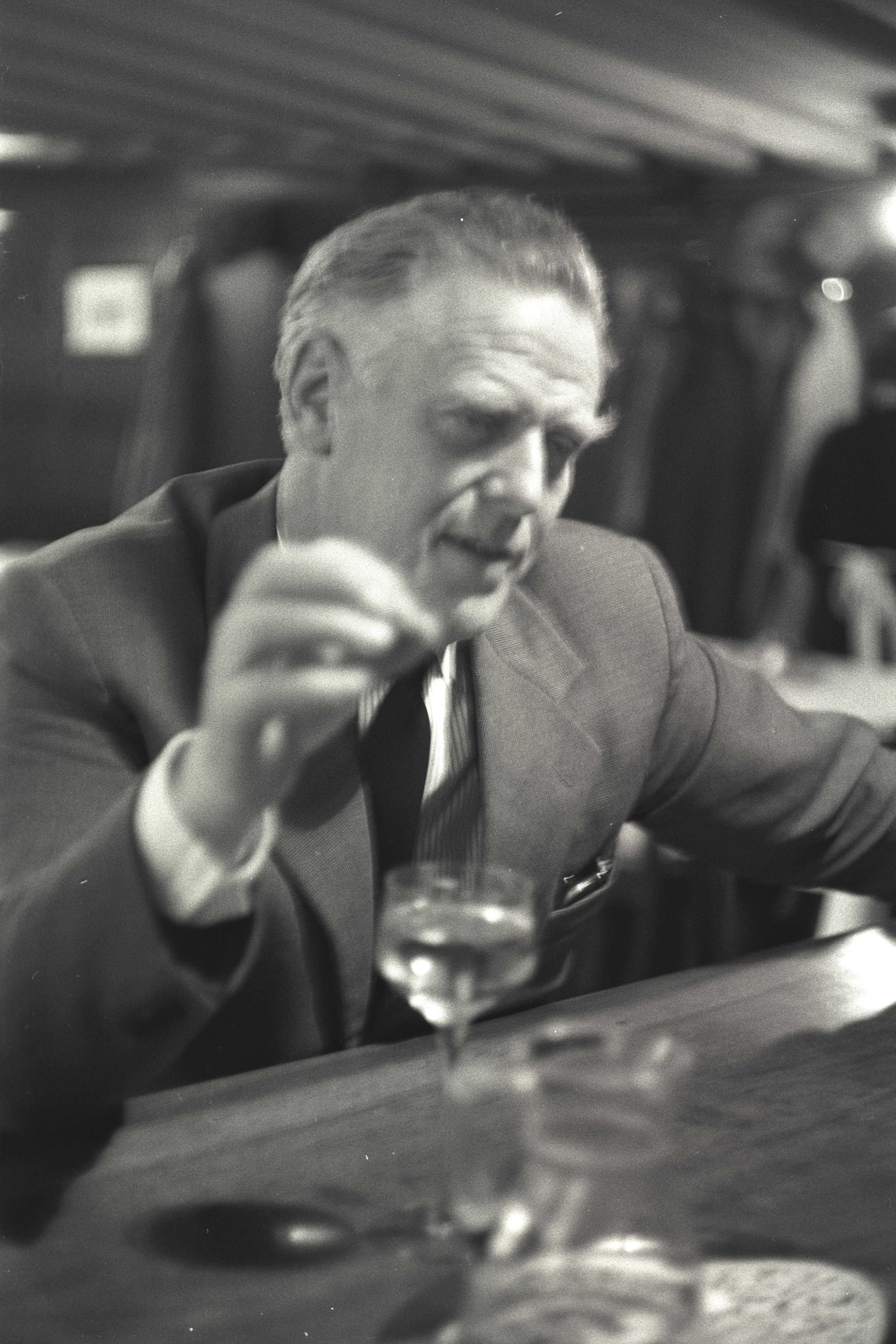 Portrait of the writer Heinrich Altherr (1909–1993)